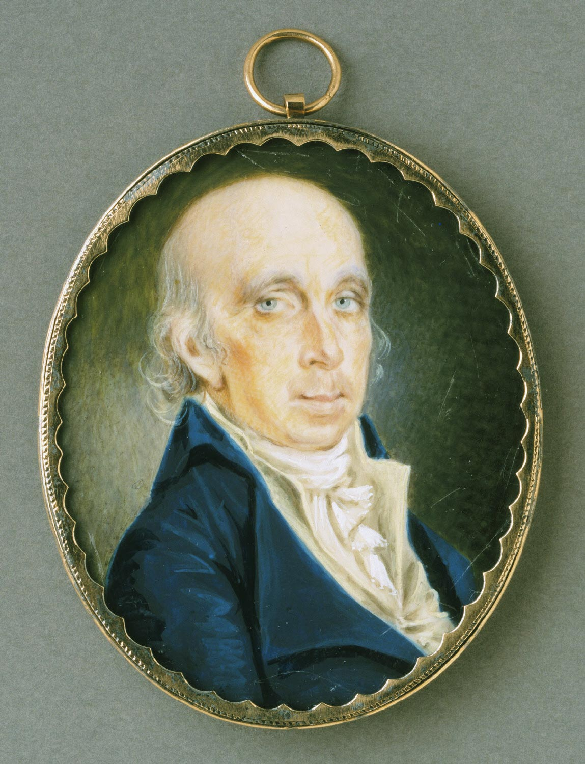 Thomas Heyward, Jr. (1746-1809) Attributed to Phillippe Abraham Peticolas, American (born France), 1760 - 1841 Geography: Made in United States, North and Central America Date: c. 1805 Medium: Watercolor on ivory Dimensions: 2 5/8 x 2 3/16 inches (6.7 x 5.5 cm) Curatorial Department: American Art Object Location: Currently not on view Accession Number: 2000-137-1 Credit Line: 125th Anniversary Acquisition. Gift of Mr. and Mrs. Joseph Shanis and Mr. and Mrs. Harris Stern in memory of Jeannette Stern Whitebook Lasker, 2000